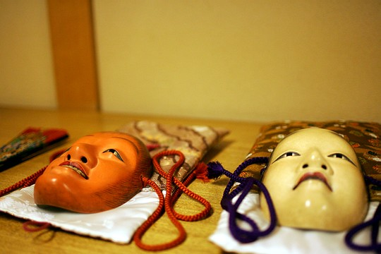 masks used in japanese "nou" stage. These are the symbol of dead person.